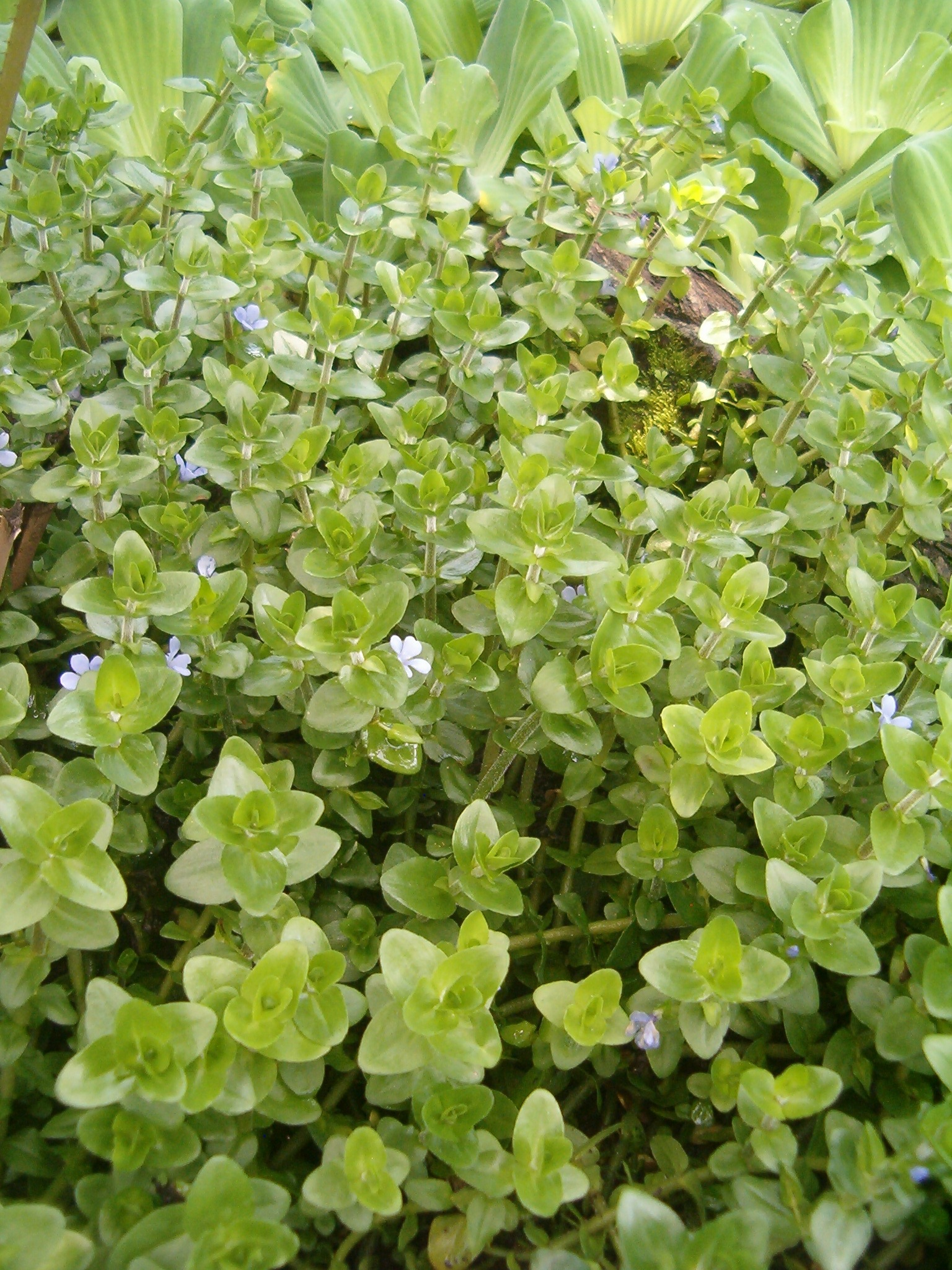 At Botanical Gardens Berlin-Dahlem Species Bacopa caroliniana